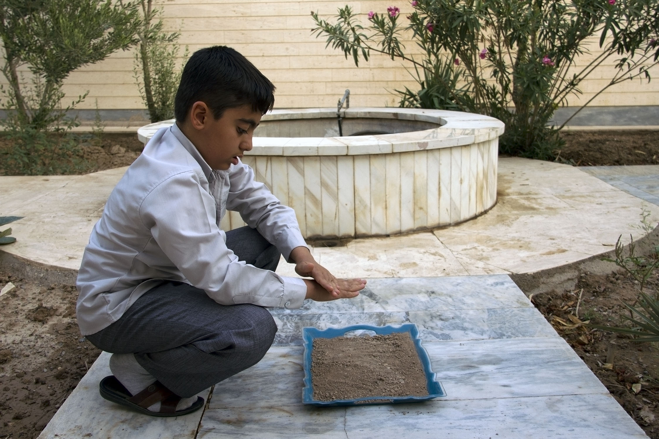 Biologically, a child (plural: children) is a human being between the stages of birth and puberty.